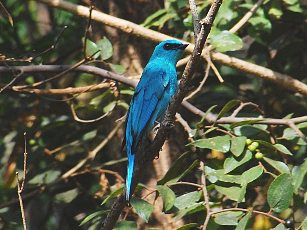 Verditer Flycatcher at IISc, Bangalore, India.